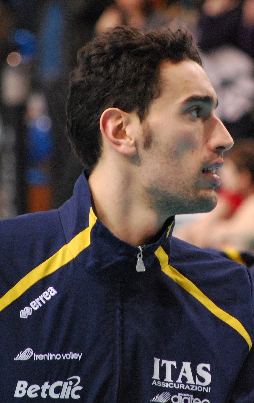 Emanuele Birarelli